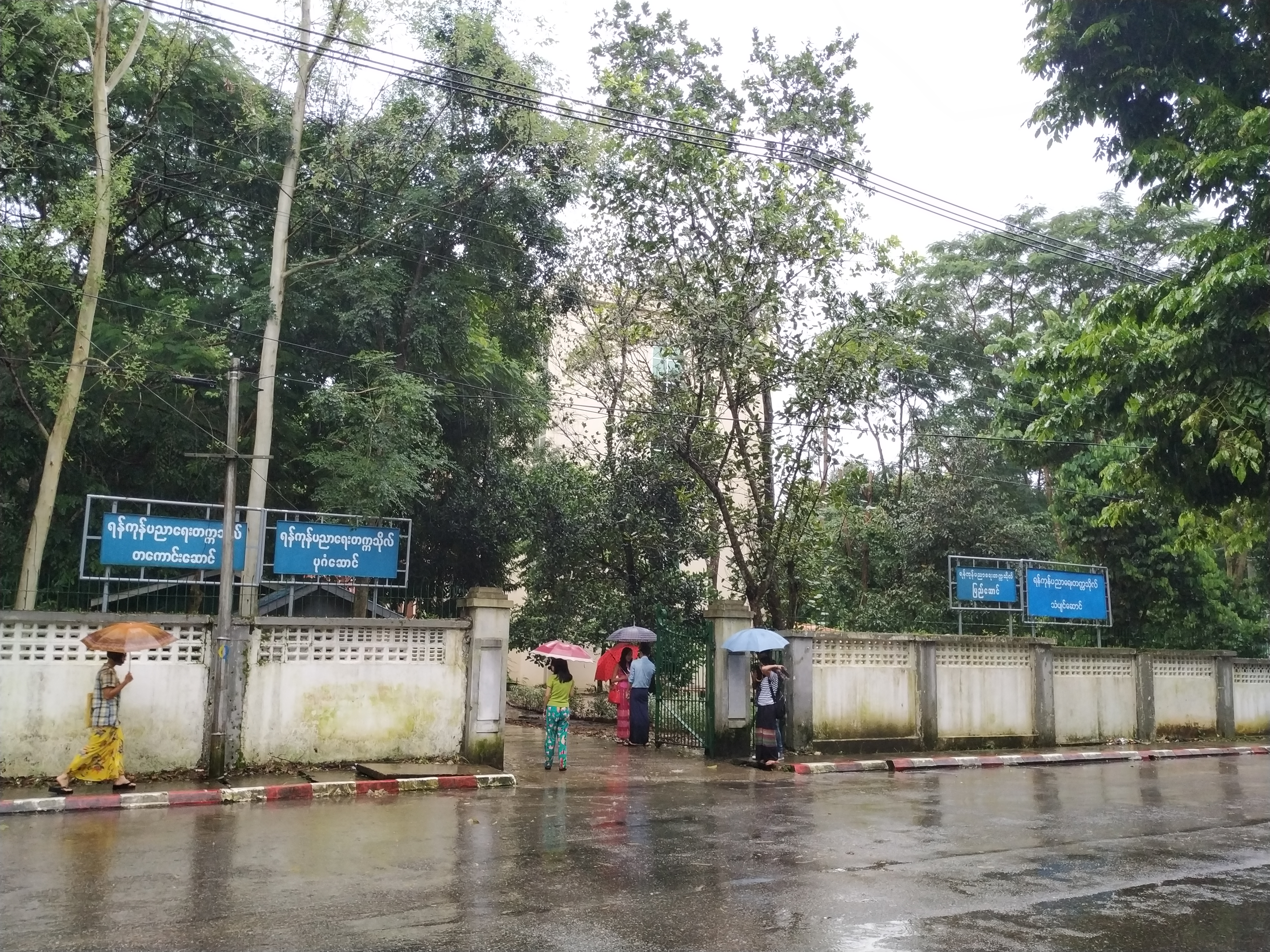 Yangon University of Education Hostels, Thaton Street, Yangon မြန်မာဘာသာ: ရန်ကုန် ပညာရေးတက္ကသိုလ် အဆောင်များ၊ သထုံလမ်း၊ ရန်ကုန်